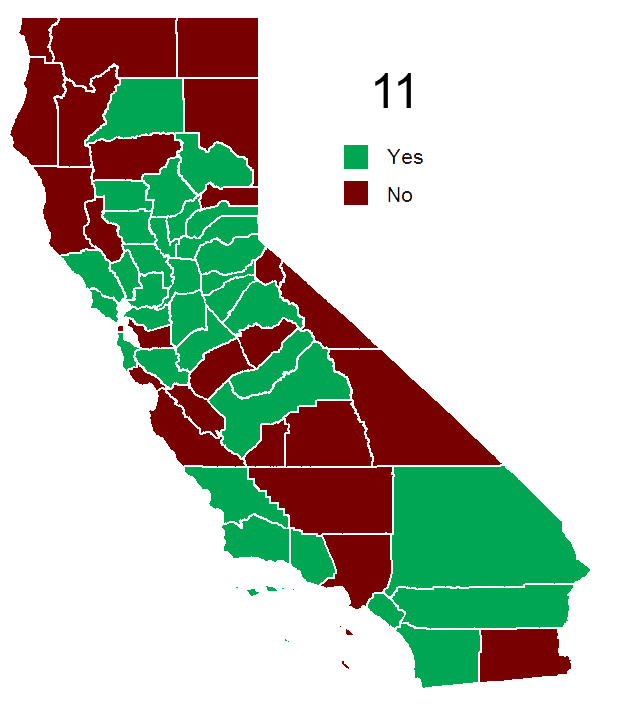 Electoral results by county.